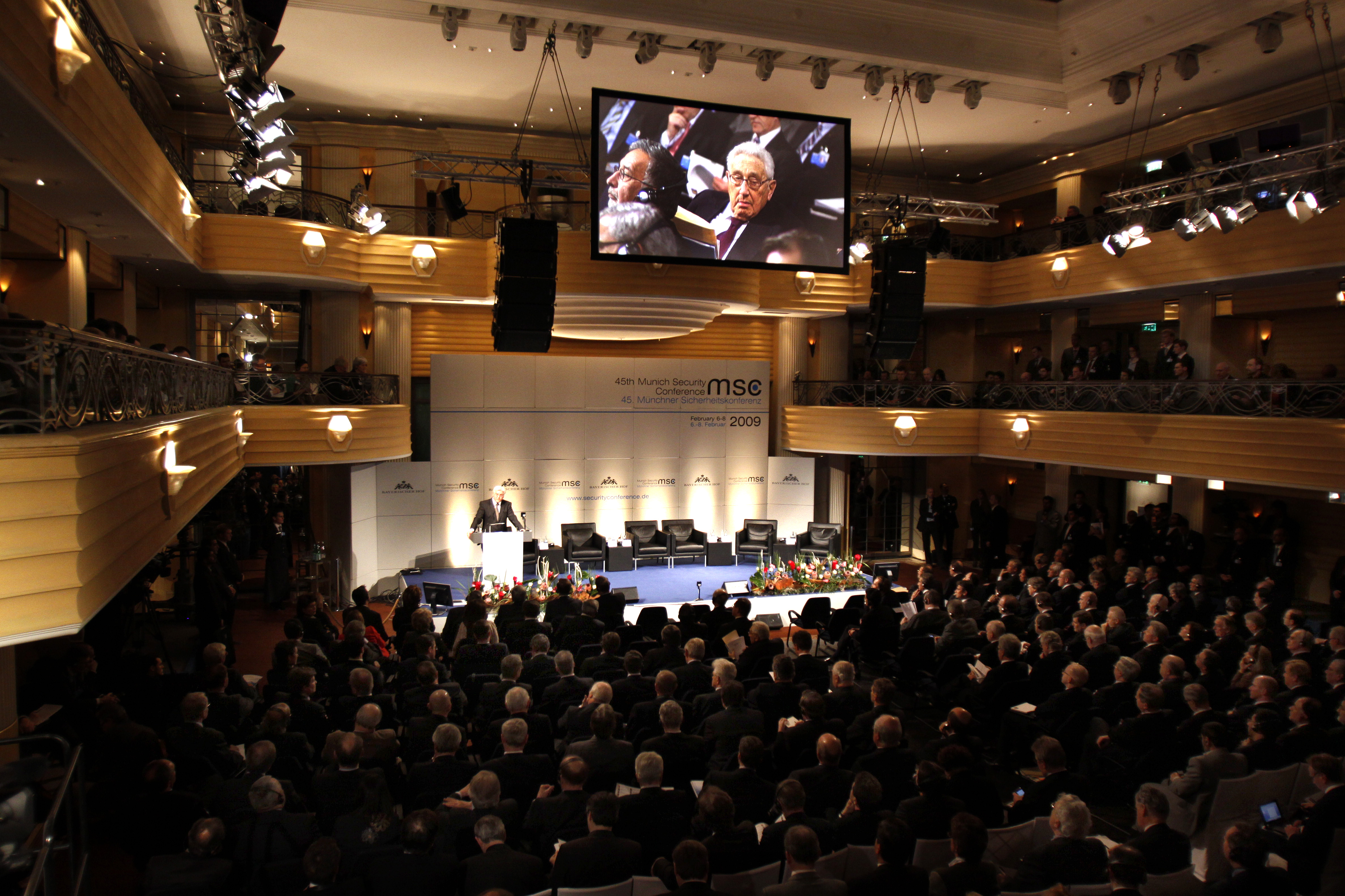 45th Munich Security Conference 2009: In the Conference Hall.